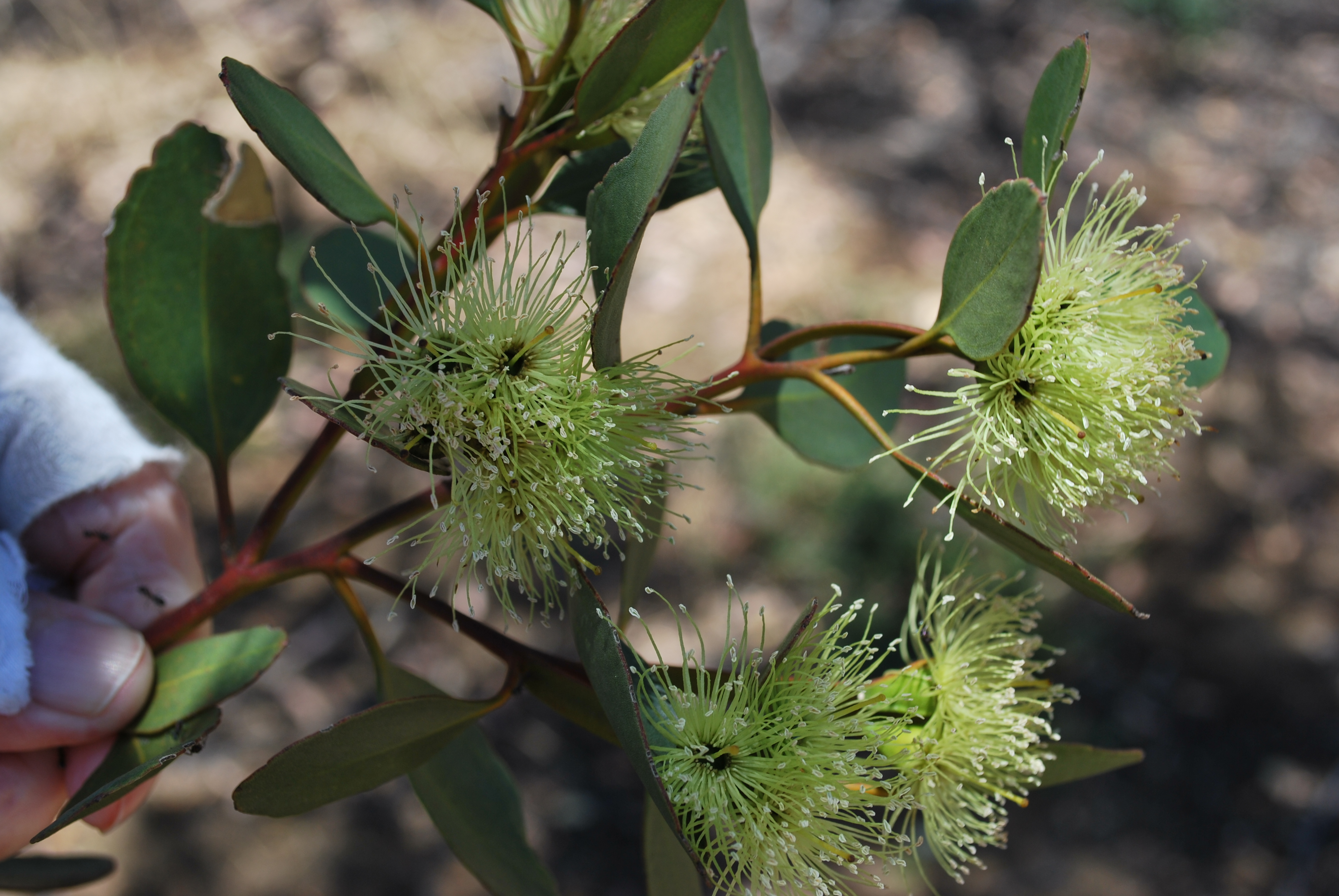 Eucalyptus platypus Flowers. and Ferocious Ants